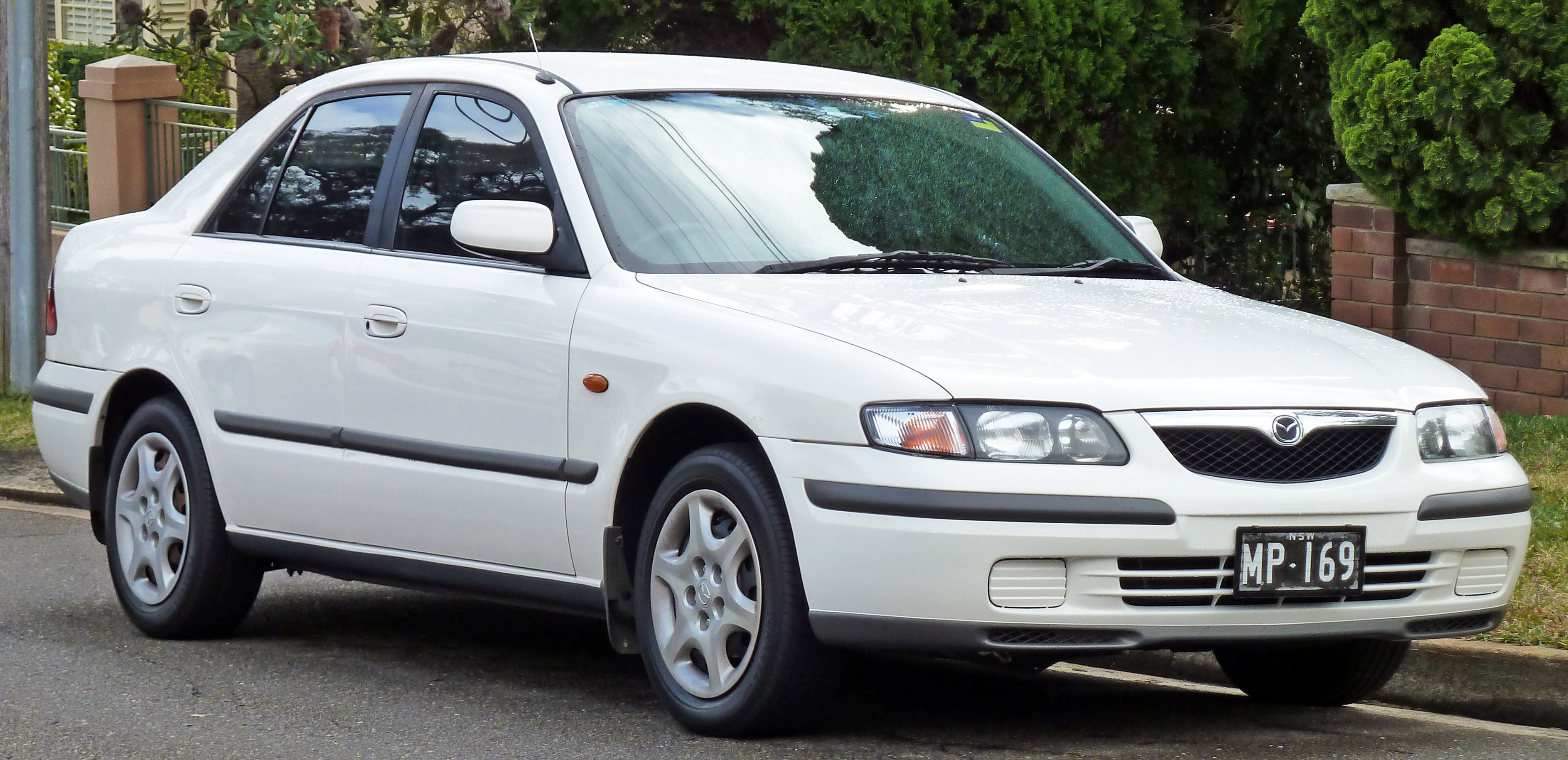 1999 Mazda 626 (GF) Limited sedan. Photographed in Kangaroo Point, New South Wales, Australia.